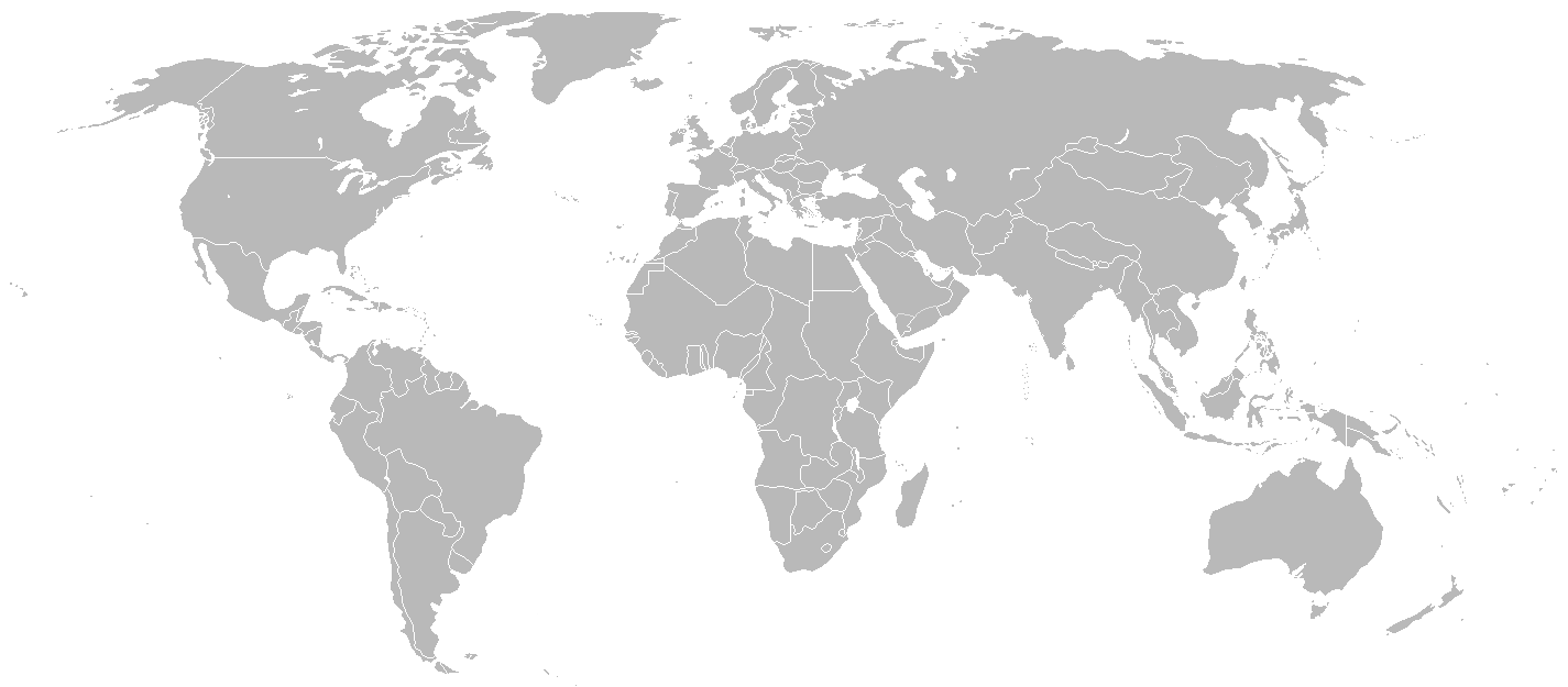 Map of the world in late 1939.